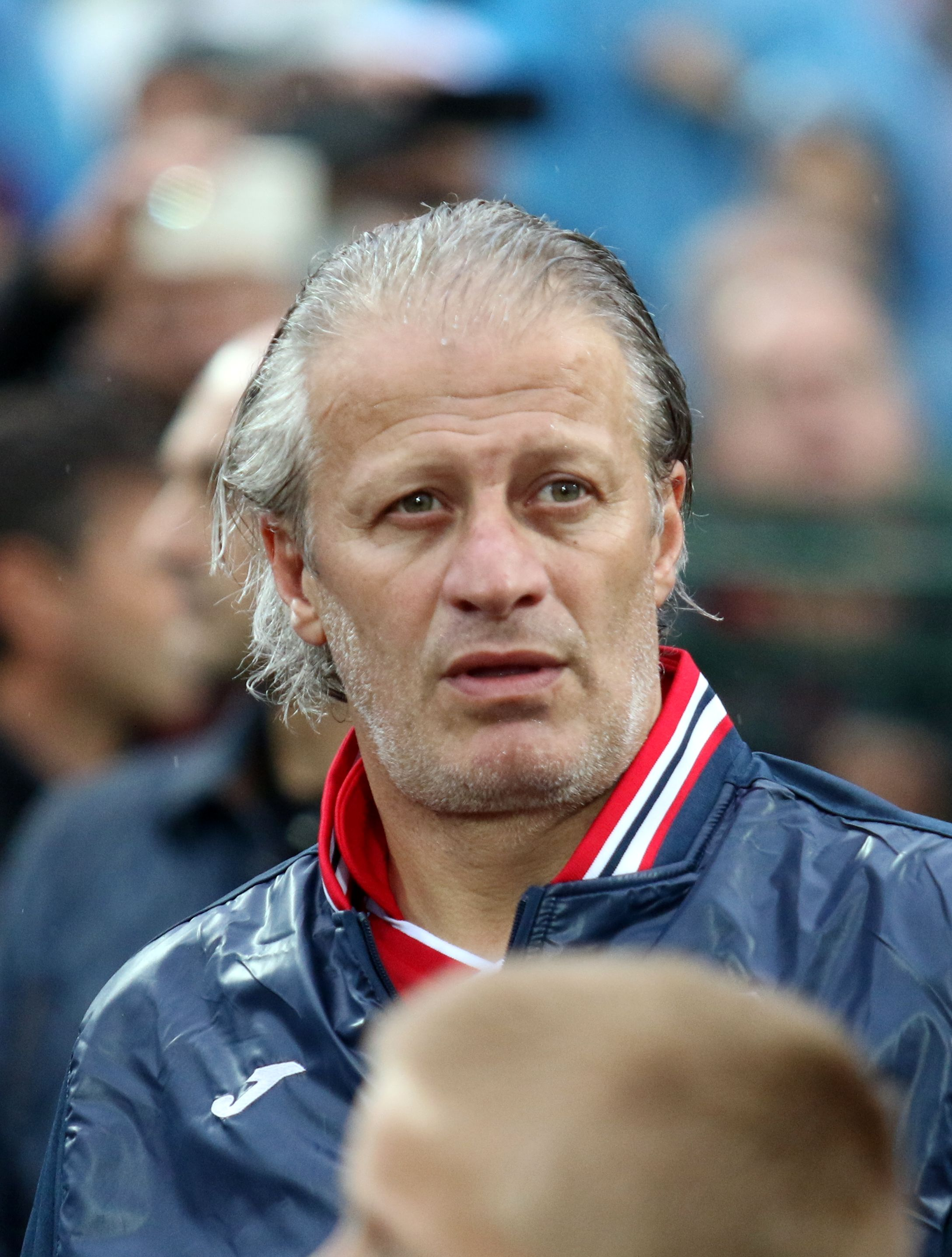 Tugay Kerimoğlu (born 24 August 1970) is a Turkish former footballer who played the majority of his career for Galatasaray and Blackburn Rovers. He was the coordinator of the Galatasaray youth academy, after a short spell working with Mark Hughes at Manchester City. He was the assistant coach to Roberto Mancini at Galatasaray at 2013–14 season.